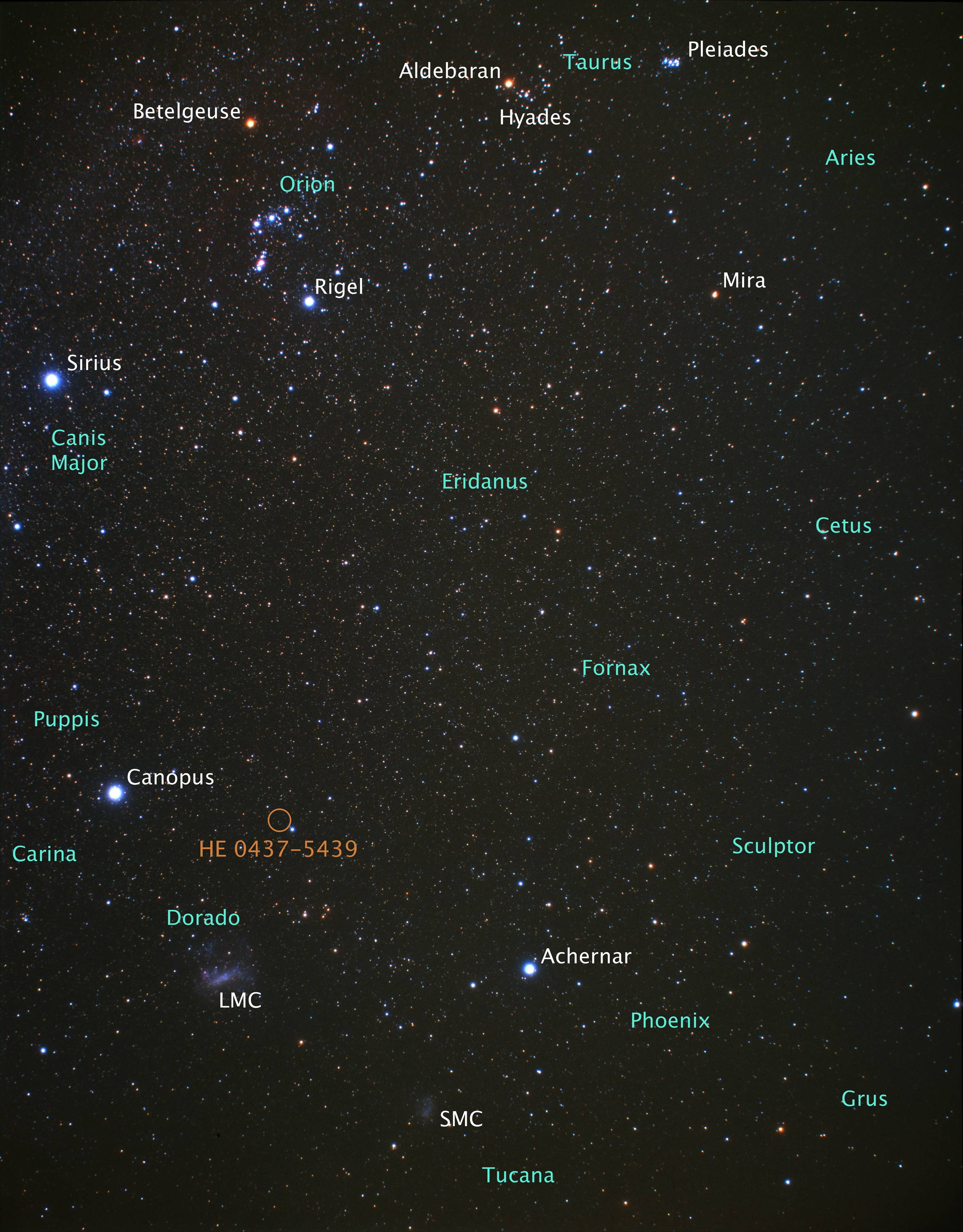 HE 0437-5439 star location map